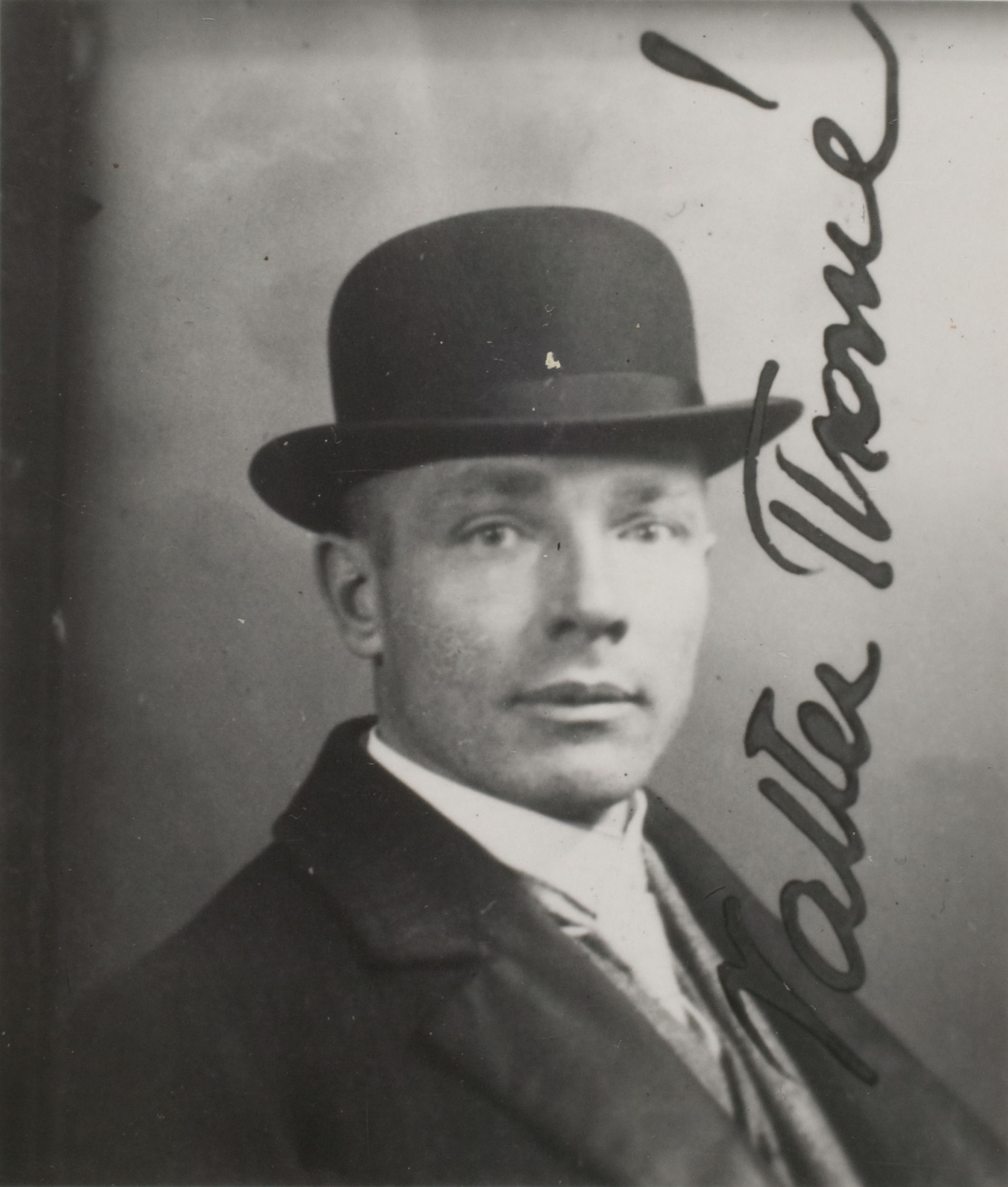 Photograph of the Finnish architect Valter Thomé (1874–1918).